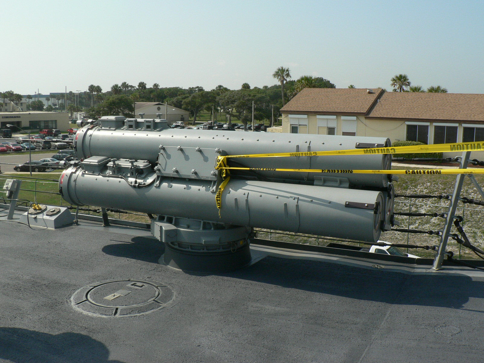 Torpedo tubes abort USS Farragut